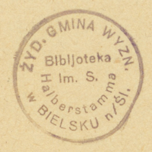 Stamp of the library of the Jewish Community in Bielsko